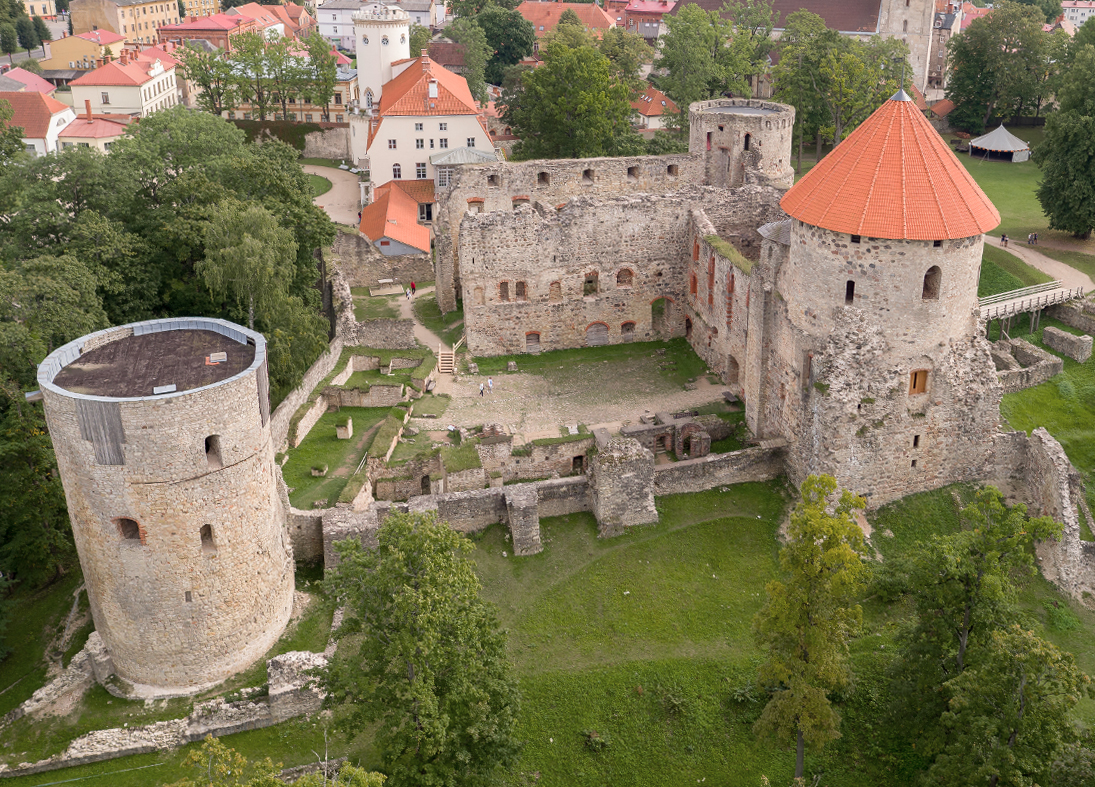 Aerial View of Cēsis Castle